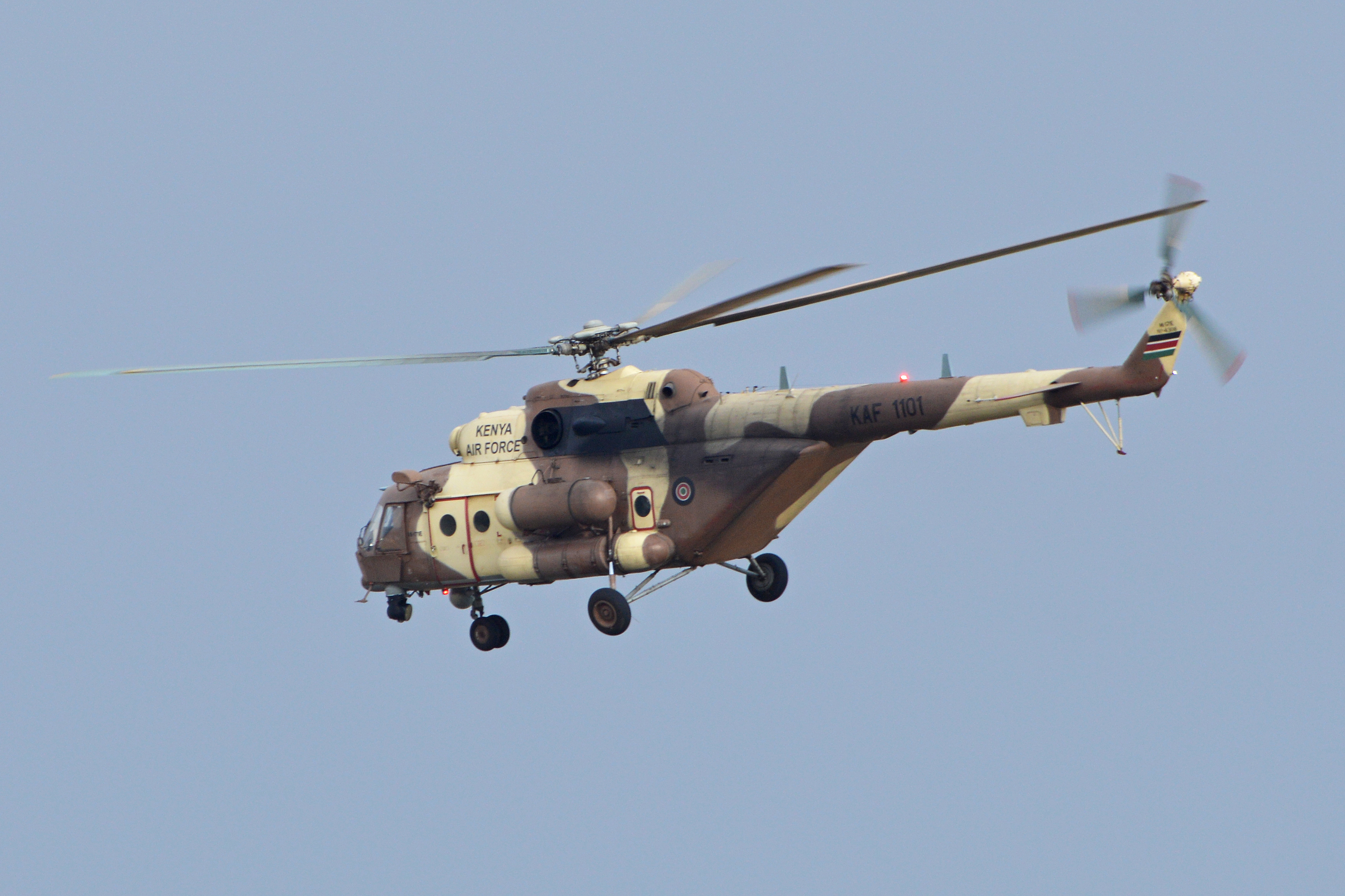 One of two Mi-171E remaining in Kenyan Air Force service, the third have been written off. c/n 4308. Seen departing Wilson Airport, Nairobi, Kenya. 25-9-2014